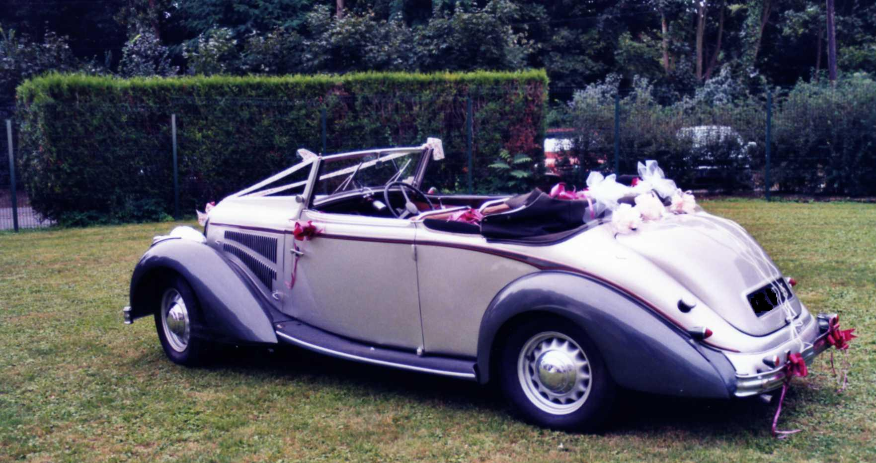 1937 Hotchkiss 486 Biarritz Convertible (Serie A)